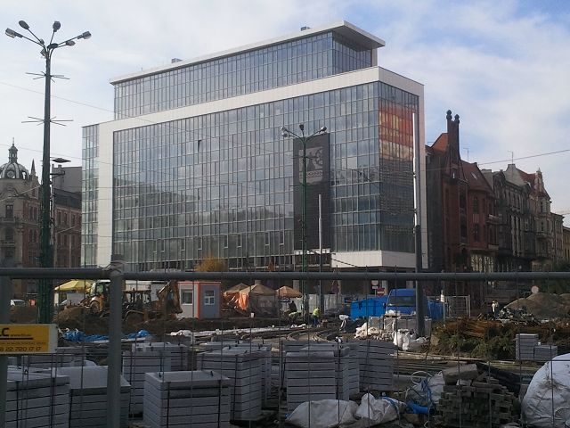 Dom Prasy Śląskiej with new facade